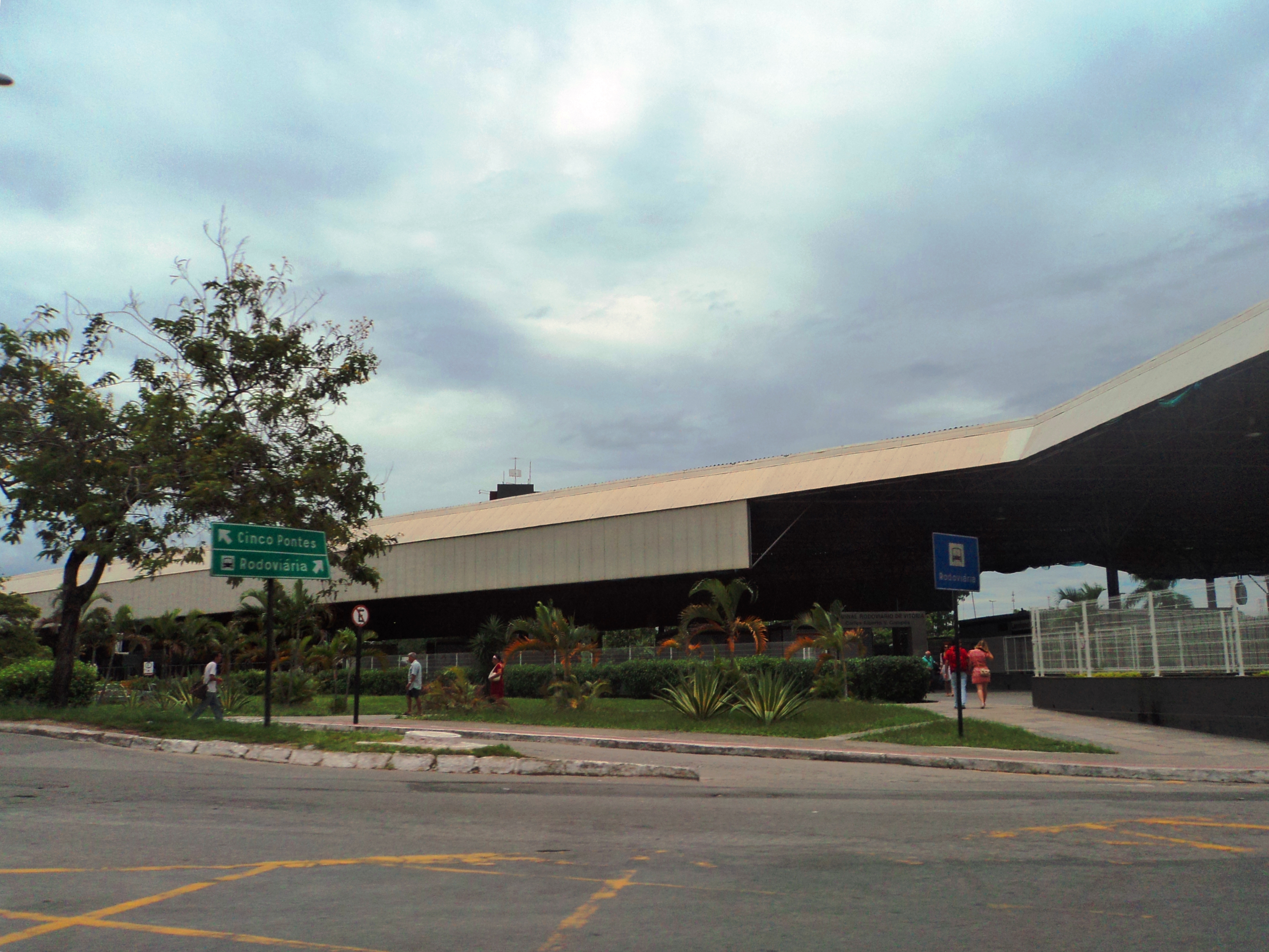 Front of the Carlos Alberto Vivácqua Campos Bus Station, in Vitória, Espírito Santo, Brazil.